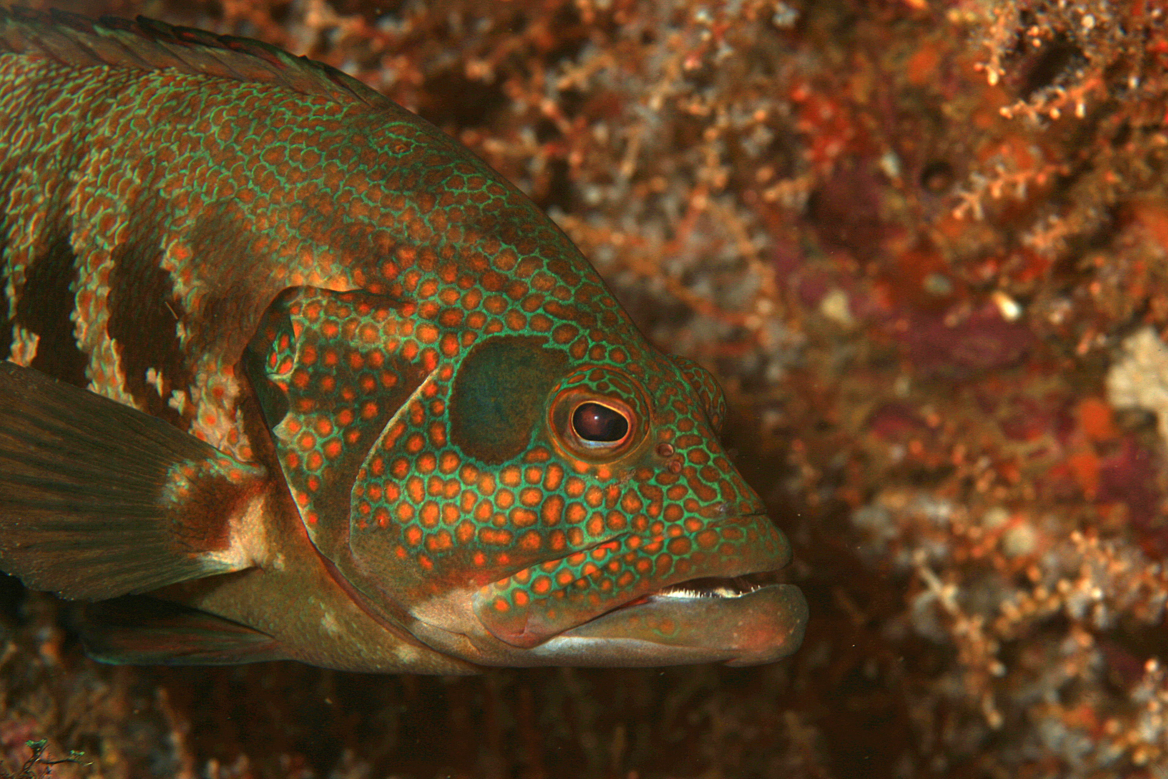 The Panamic Graysby (Cephalopholis panamensis)